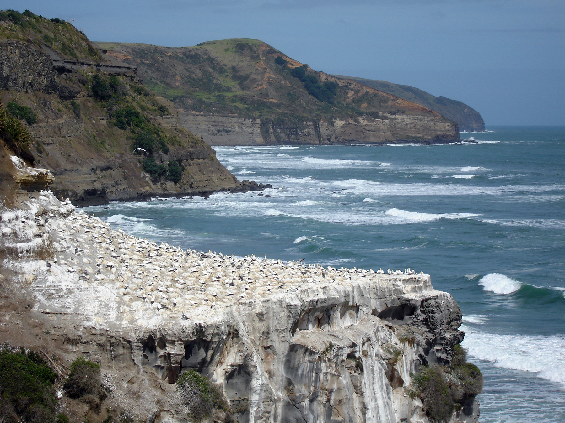 Breeding colony of Australasian Gannet (Morus serrator), Muriwai, New Zealand